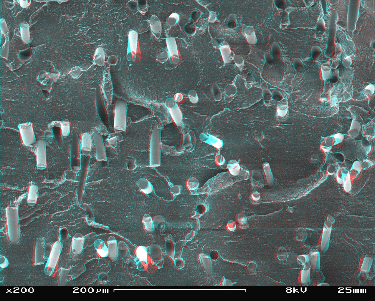 This is a stereoscopic SEM (scanning electron microscope) view of a fractured glass reinforced plastic after a 25 nm platinum sputter coating. Magnification 200x (relative to medium format film).